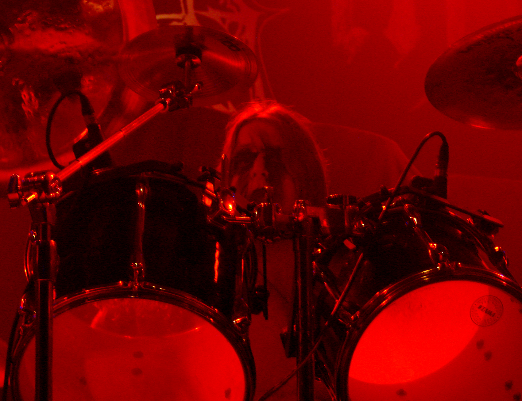 Enthroned during their concert in La Locomotive, Paris, 20/11/07. Ahephaïm: drums.